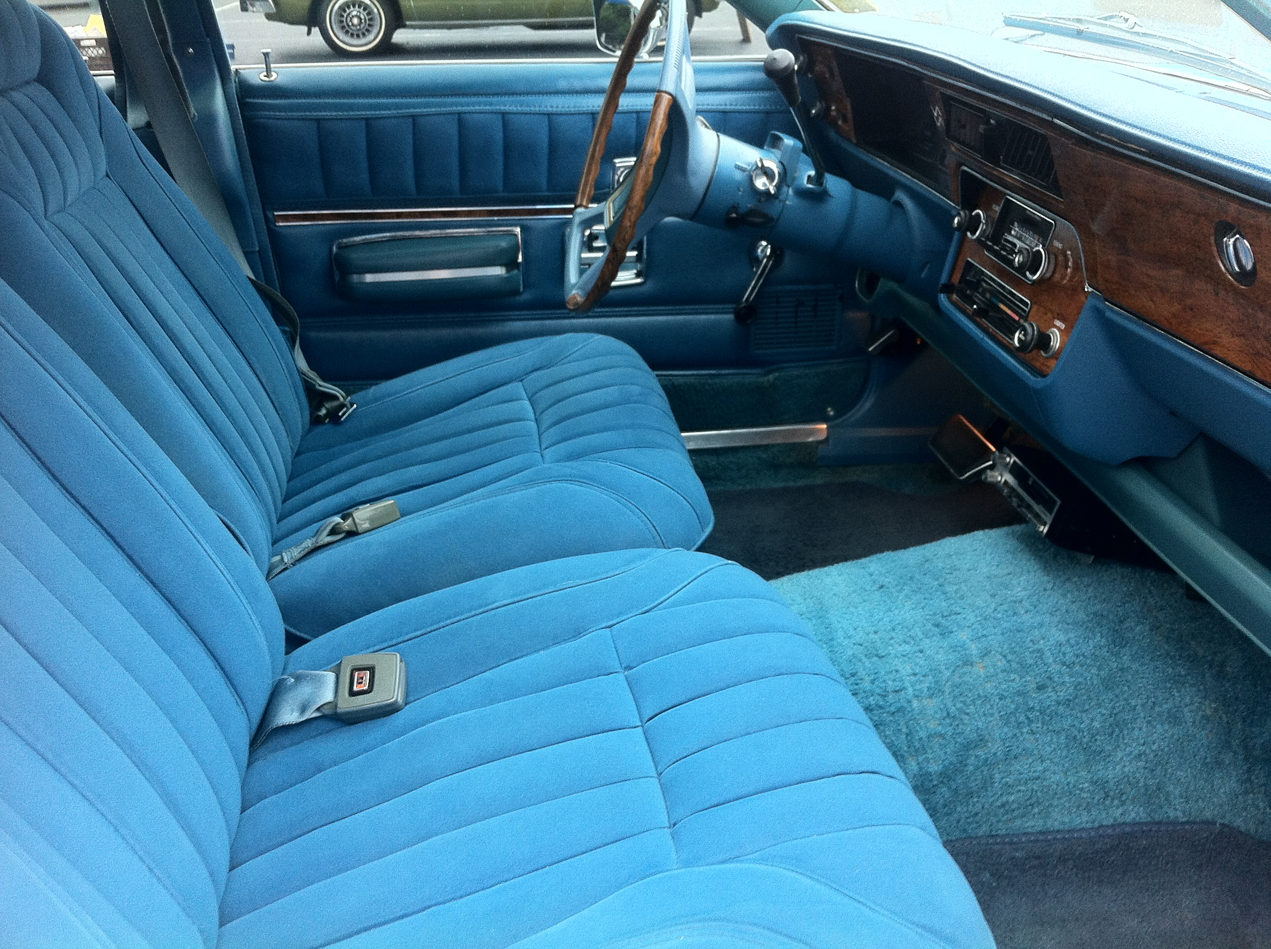 1978 AMC Concord DL station wagon. A compact-sized luxury automobile manufactured by American Motors Corporation (AMC). Finished in "Powder Blue" (paint code - 7D) with standard woodgrain exterior trim and with the standard blue velour upholstery. Photographed at the 2014 American Motors Owners (AMO) convention that was held in North Charleston, North Carolina, USA.